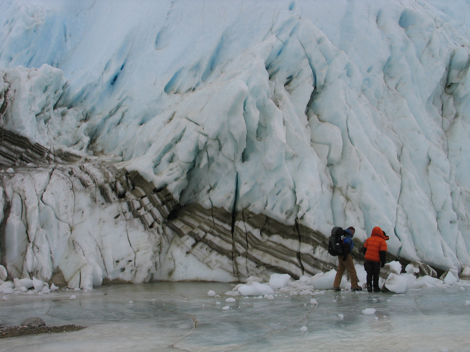 Jess: Taken alongside of the Taylor Glacier on Lake Bonney